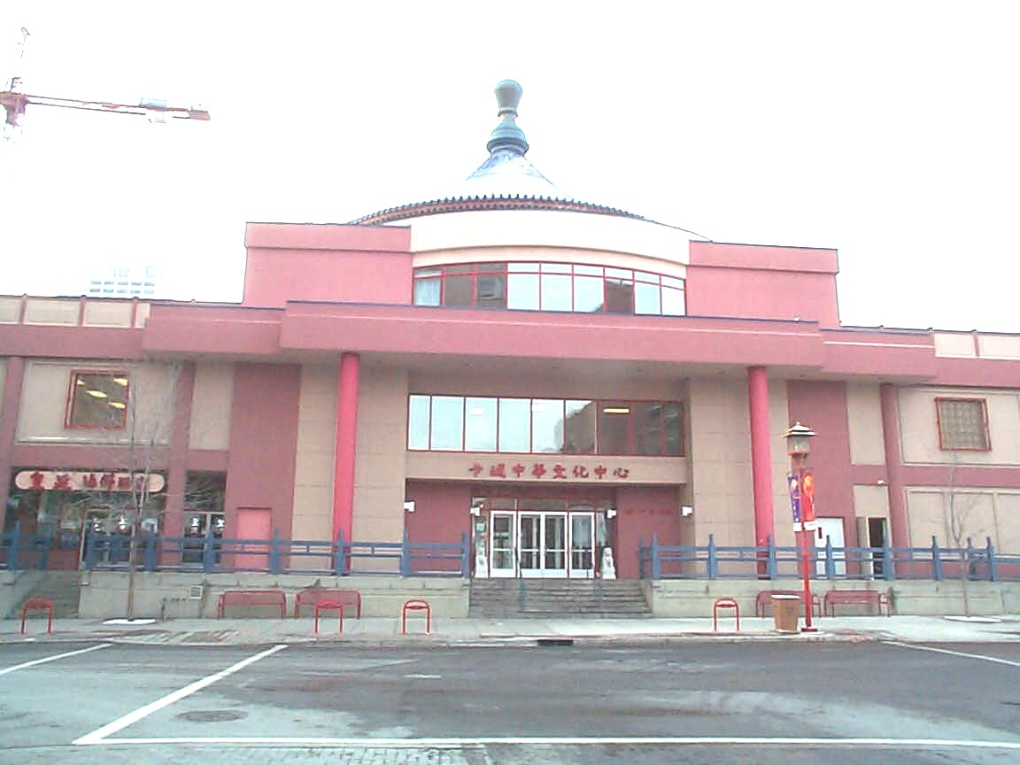 Subject: Chinese Cultural Centre Location: 197 1st Street SW, Calgary, Alberta, Canada Related article: Chinatown, Calgary Date taken: November 27, 2005 Photographer: User:Thivierr